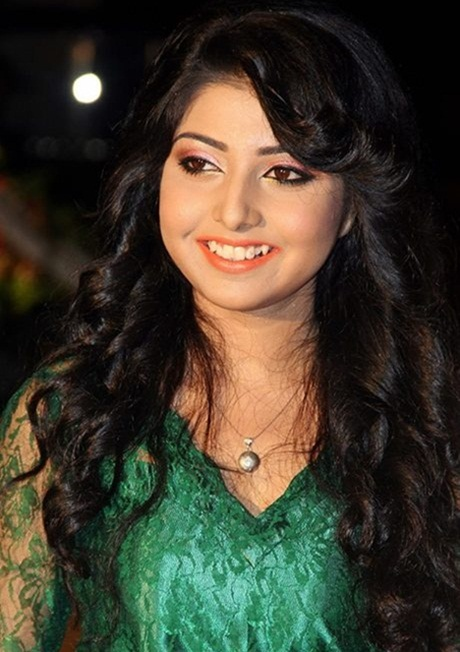 launching ceremony of the album "porshi 3"